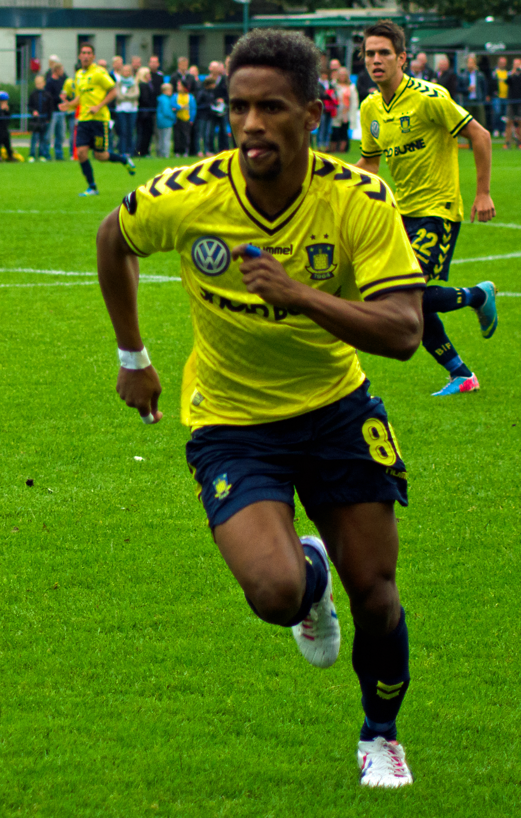 Quincy Antipas playing for Brondby